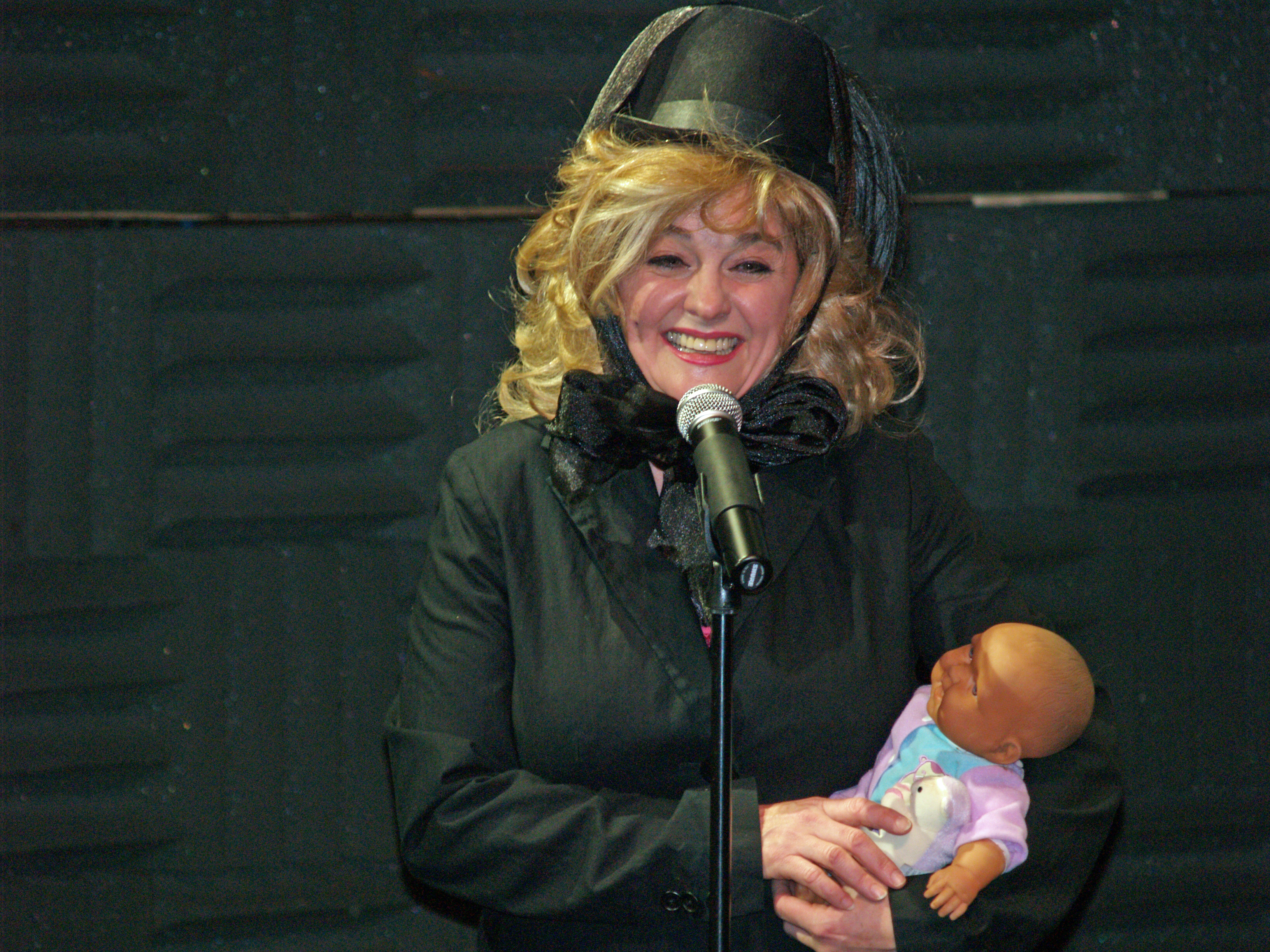 Julie Brown by David Shankbone at Joe's Public Theater in New York City, February 2008.